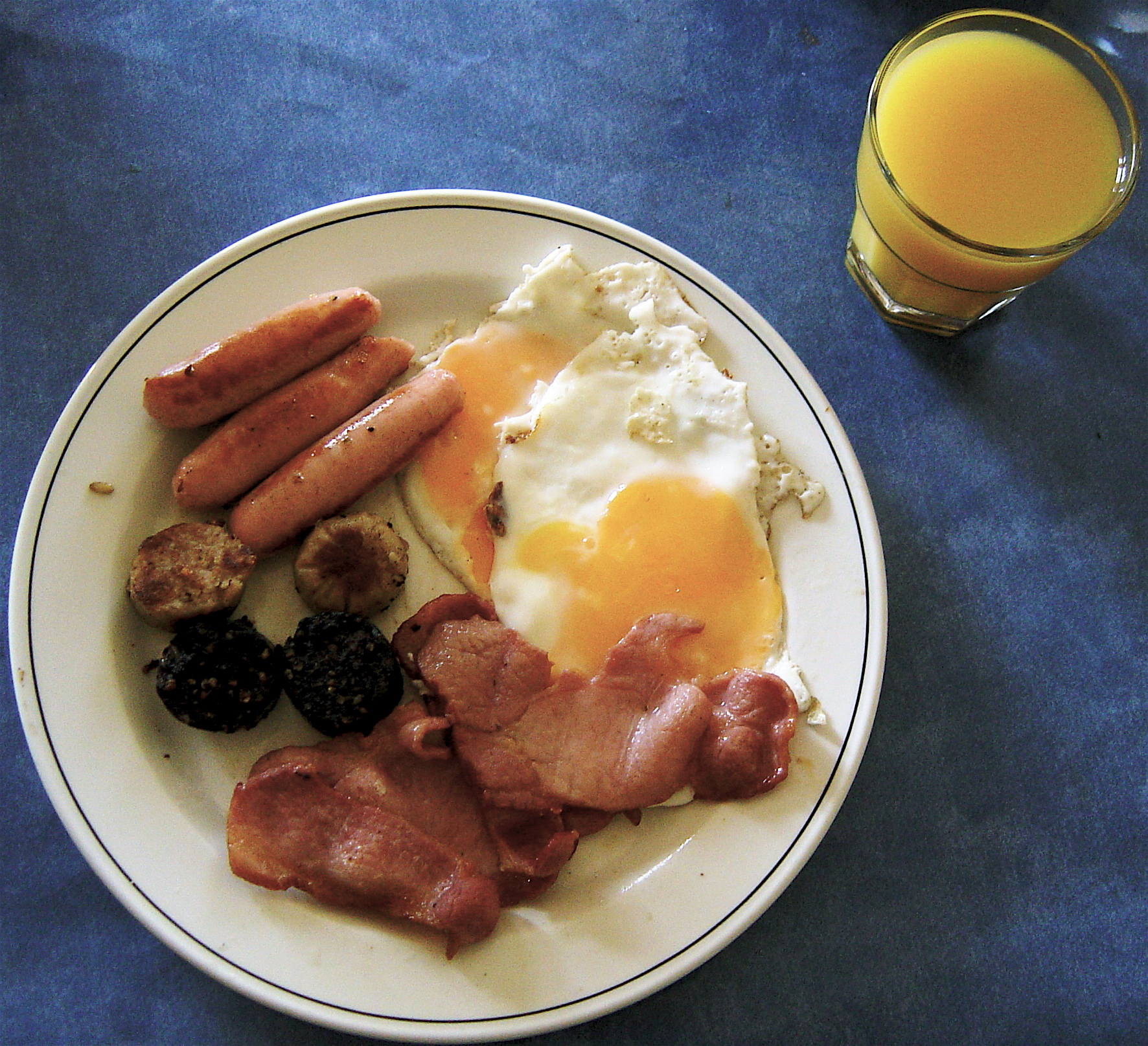 Irish breakfast